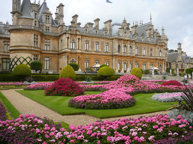 Waddesdon Manor & Gardens